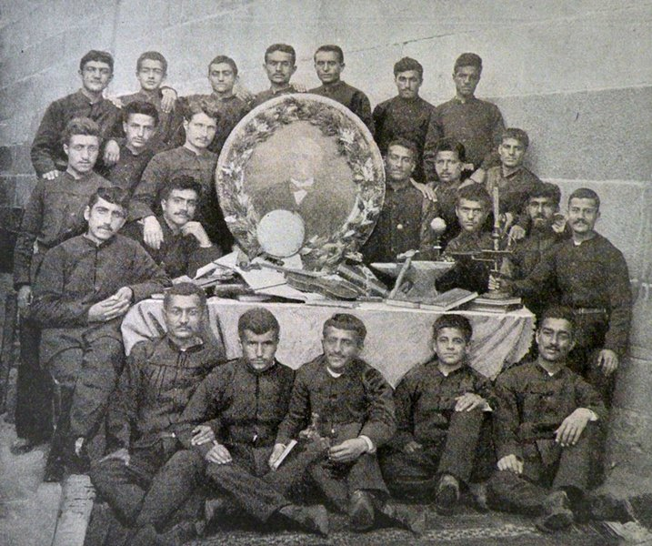 Graduates of the Armenian Sanasarian school in Erzurum